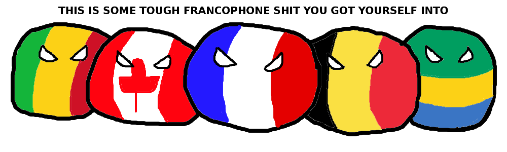 Polandball comic on Francophones